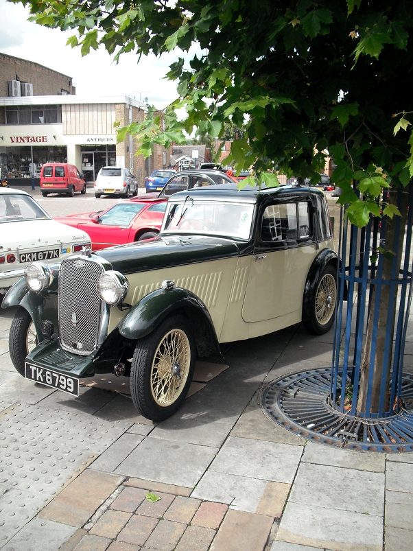 SINGER Nine sports coupé first registered 21 January 1933, 972 cc engine (from DVLA)